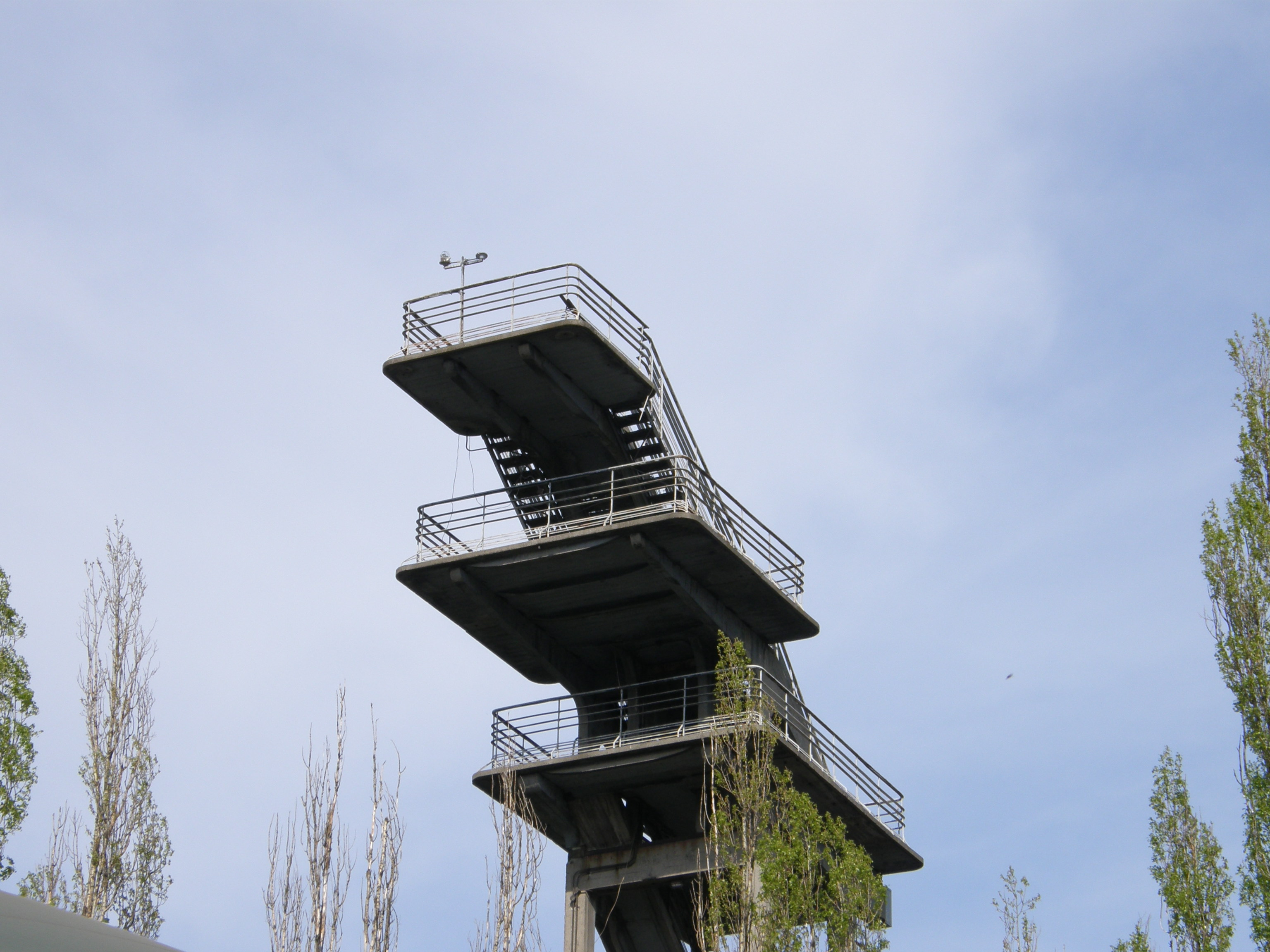 Ski jumping hill in Warsaw, Poland